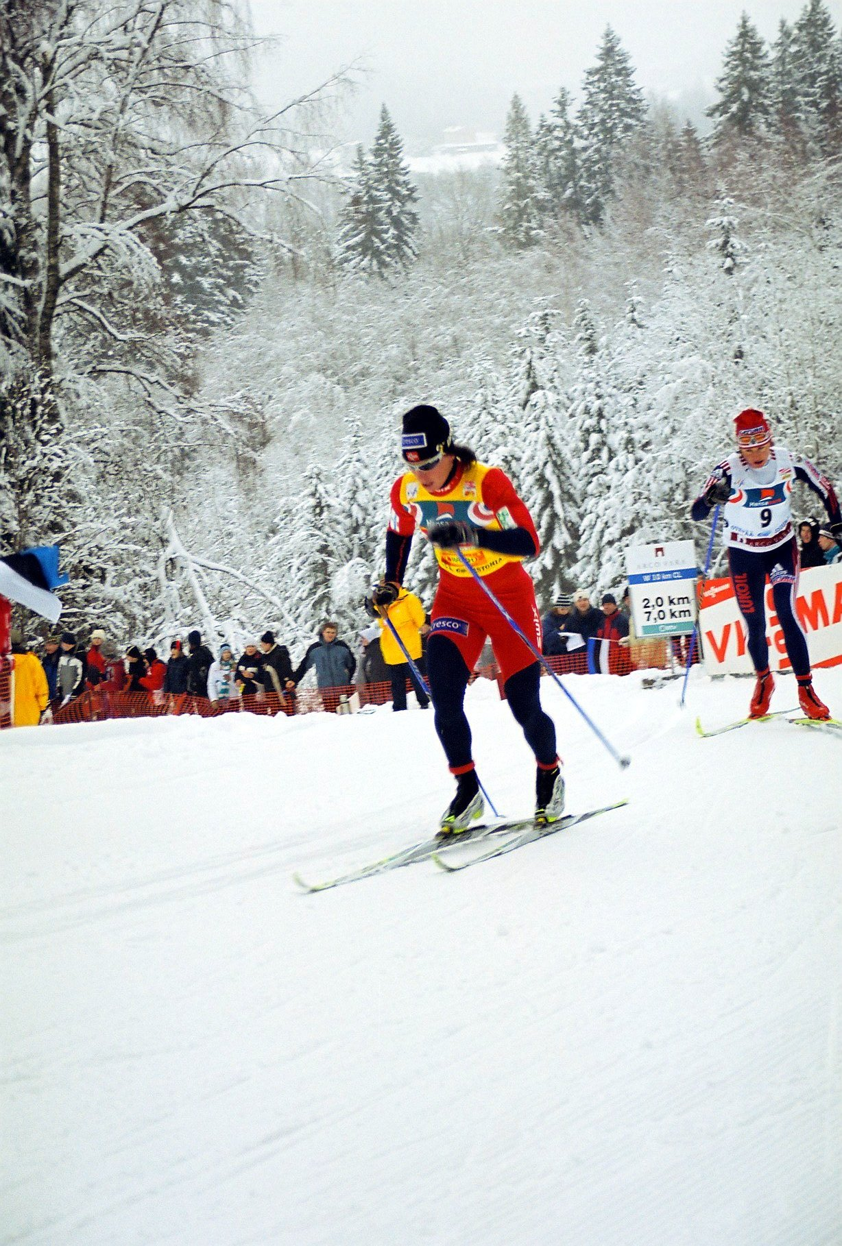 FIS World Cup Cross Country, January 7 2006 in Otepää, Estonia Women's 10k Classic XC Marit Bjørgen and #9 Svetlana Nagejkina